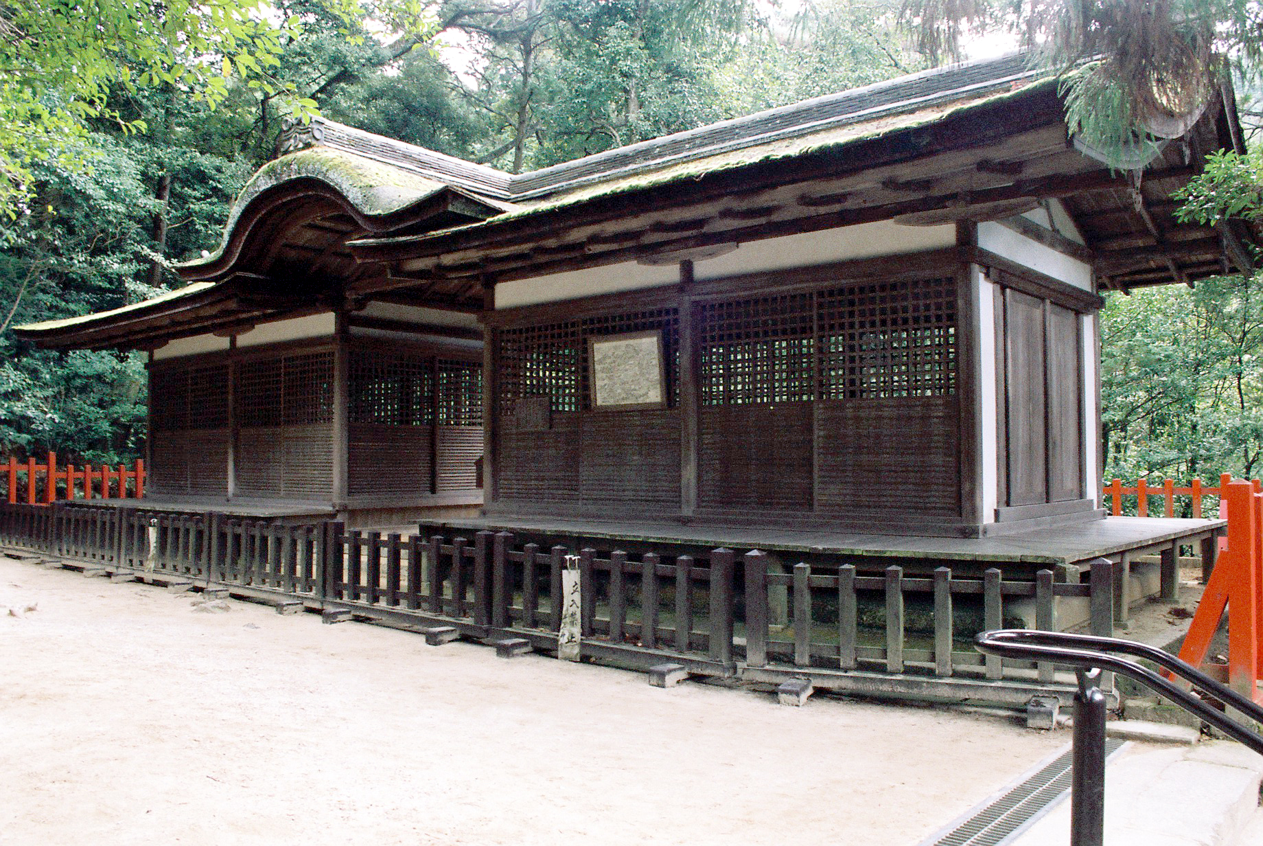 IZUMO TAKEO Shrine